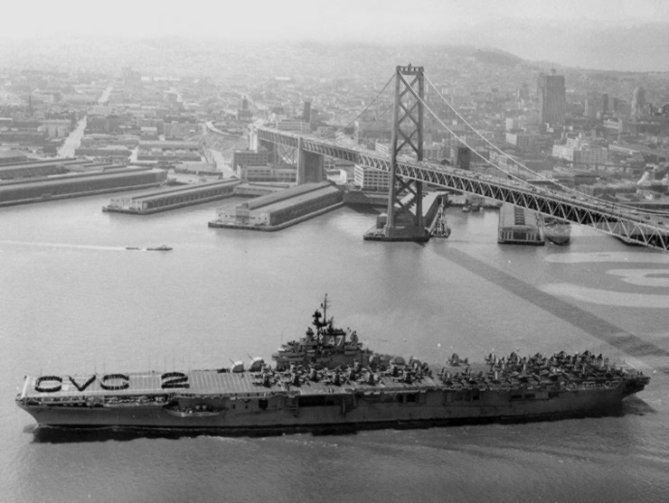 The U.S. Navy aircraft carrier USS Philippine Sea (CV-47) passes under the Oakland Bay Bridge as she arrives at San Francisco, California (USA), upon her return from the Korean War zone, circa 9 June 1951. Crewmen on the flight deck are spelling out "CVG 2" (Carrier Air Group 2) in honour of her air group.